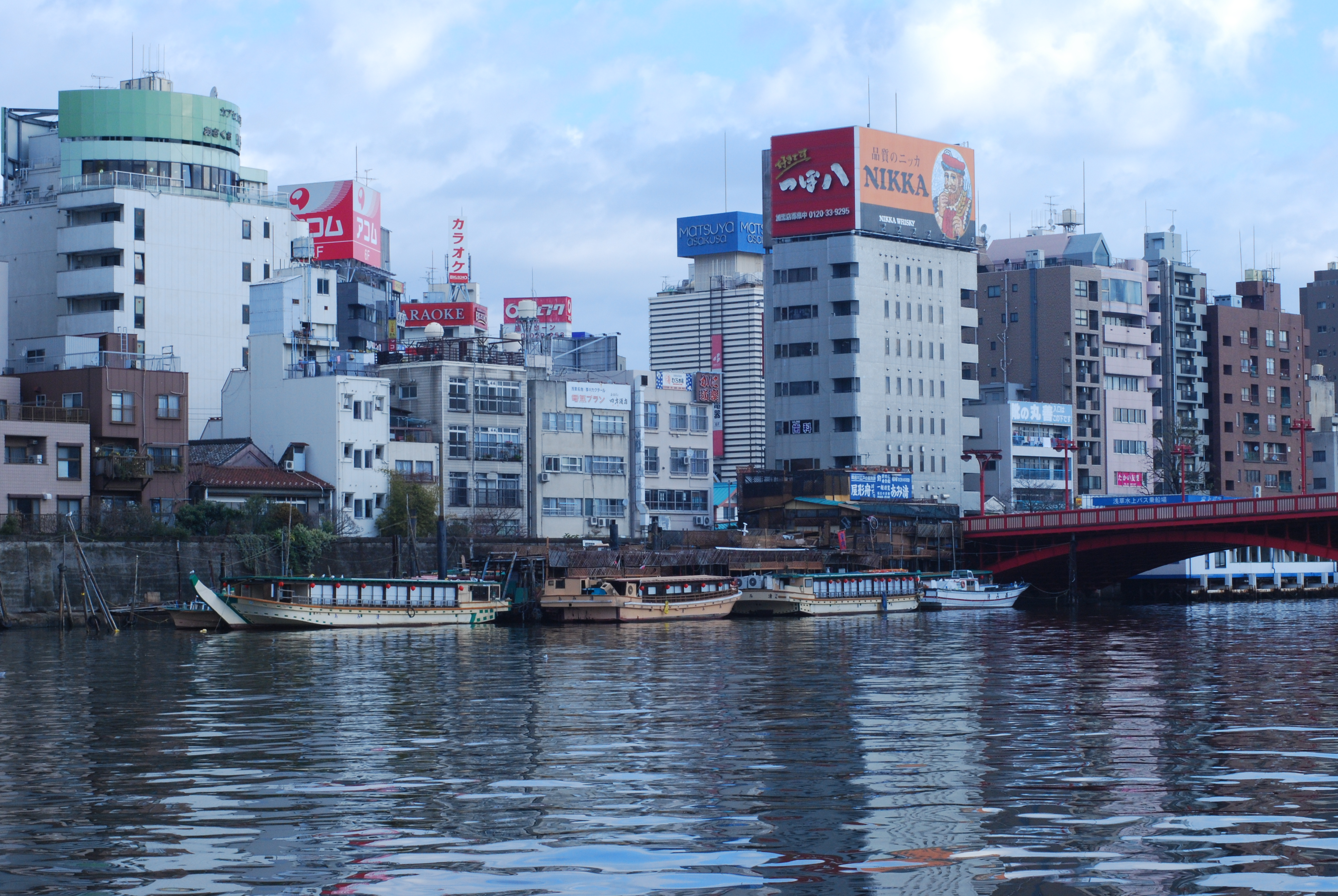 Sumida River in Asakusa , wiew from the east side.